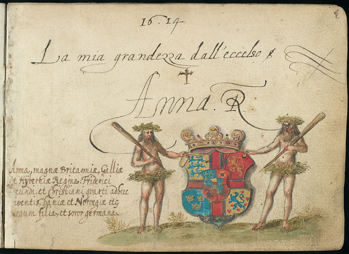 Edinburgh University Library Special Collections December 2006 January 2007 Michael van Meer, Album Amicorum, (or Stam Boek, Stamboek, Stammbuch, book of friends) 17th century Michael van Meer (Antwerp, ca. 1590 - Hamburg, October 13 1653) Album started 1613, ended 1648 527 pages, 774 contributions (entries) More information about the Van Meer Album in RAA REPERTORIVM ALBORVM AMICORVM Internationales Verzeichnis von Stammbüchern und Stammbuchfragmenten in öffentlichen und privaten Sammlungen Department Germanistik und Komparatistik, Friedrich-Alexander-Universität Erlangen-Nürnberg